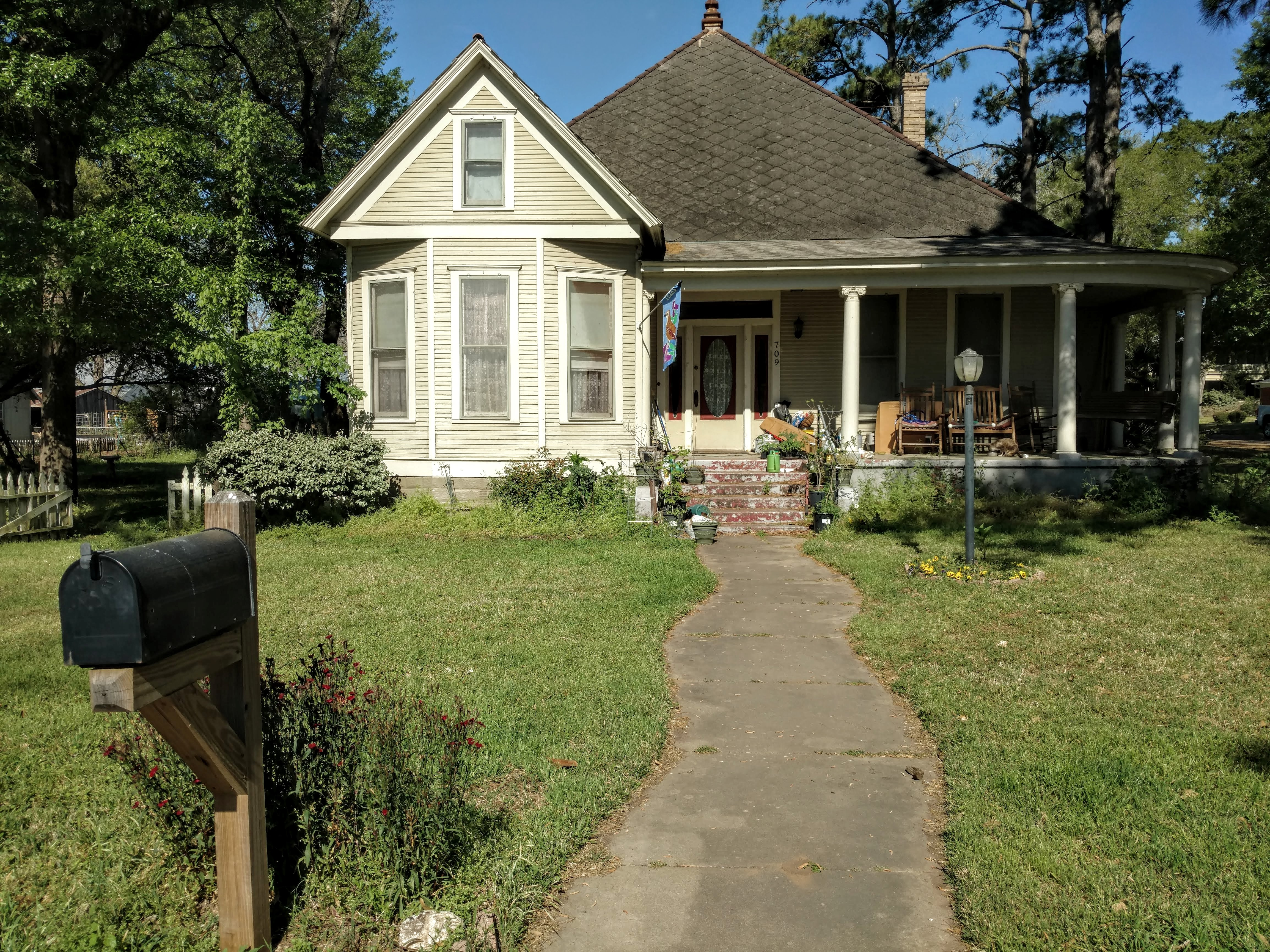 The home of the O'Brien family in the film as it appeared in March of 2019.